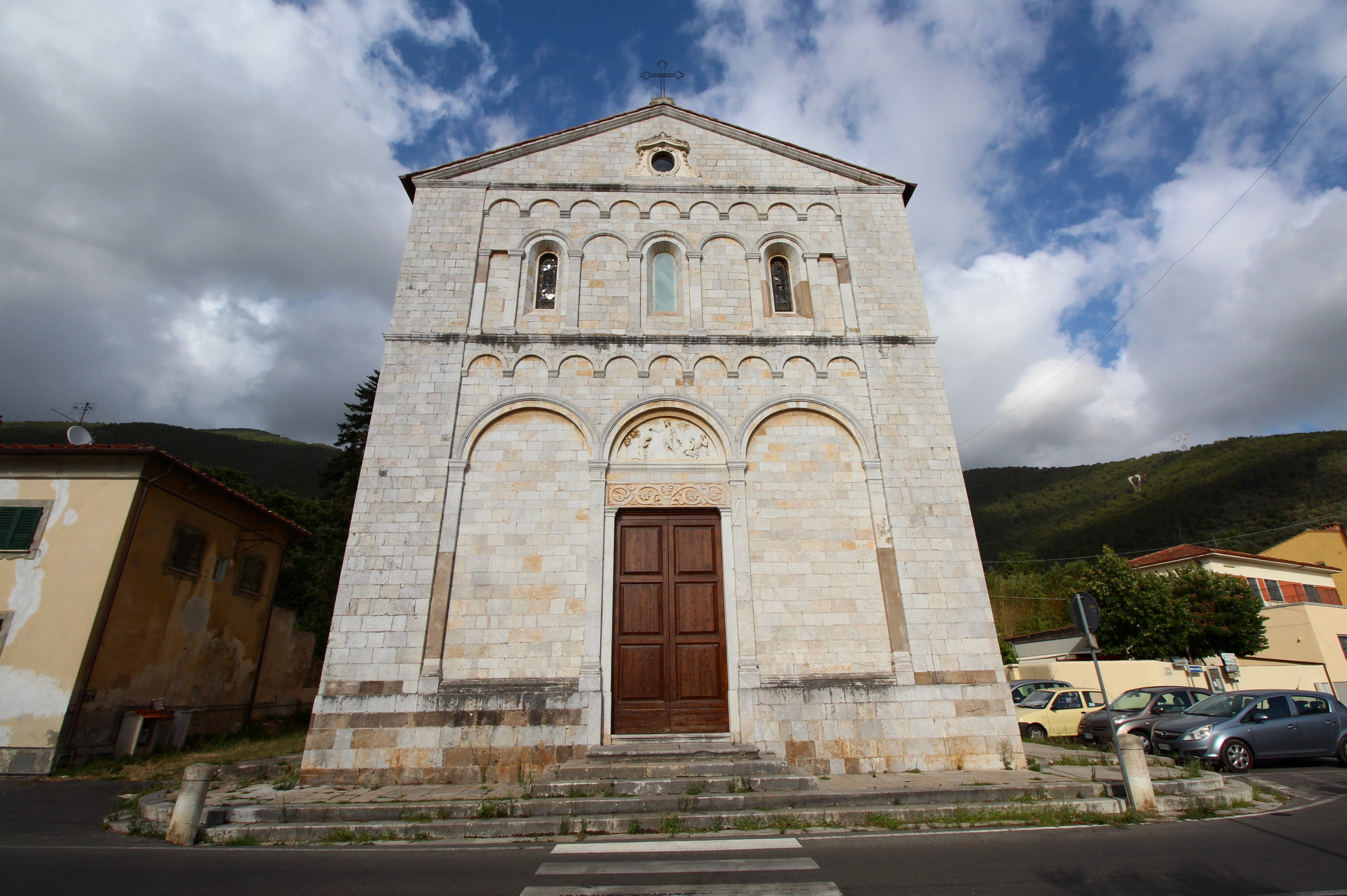 Church San Giovanni Battista, Asciano Pisano, hamlet of San Giuliano Terme, Province of Pisa, Tuscany, Italy